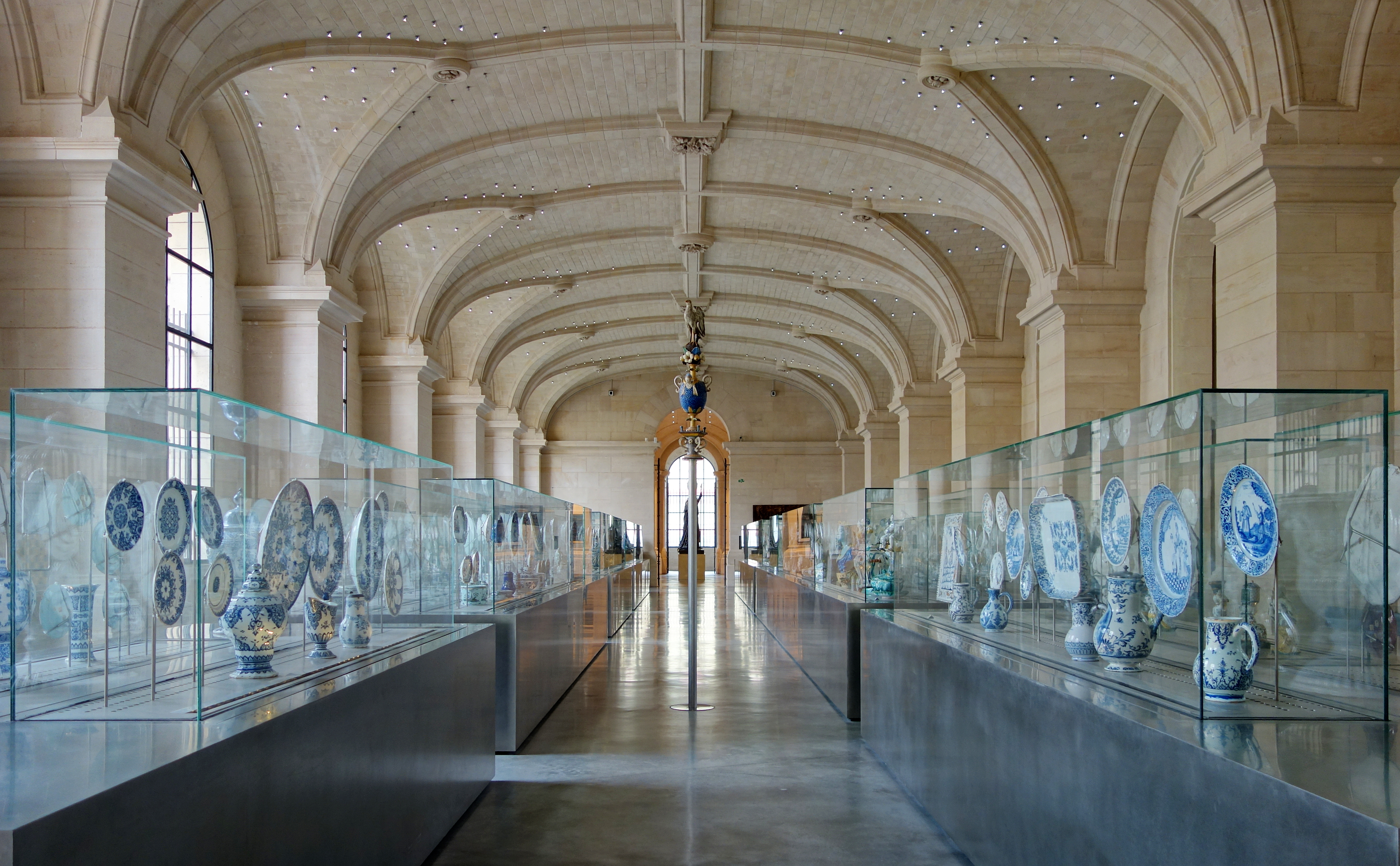 Gallery of ceramics in the Palais des beaux-arts de Lille, France